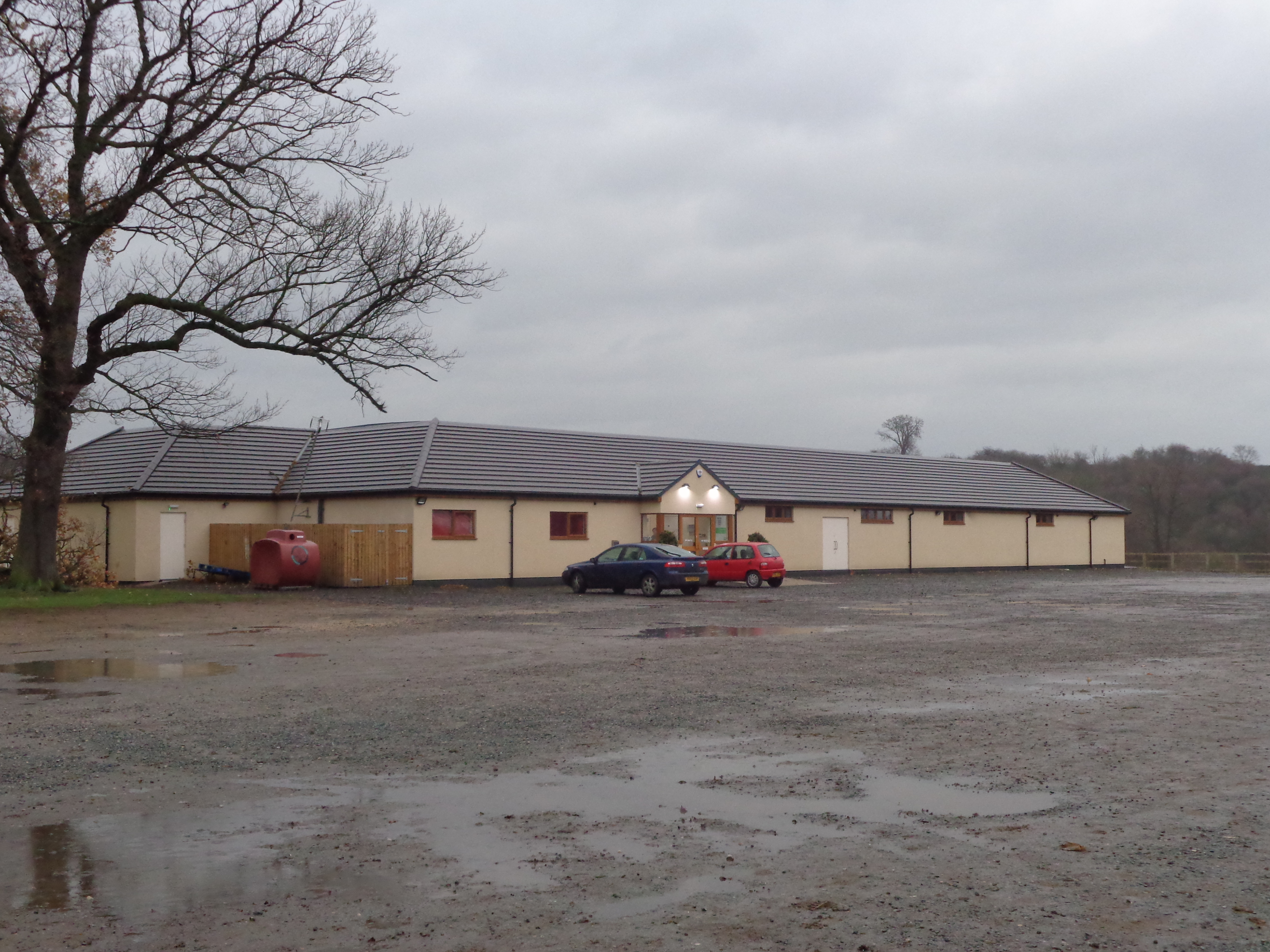 New clubhouse and main car parkGrange Park, Wetherby, West Yorkshire. Taken on the afternoon of Friday the 13th of December 2013.